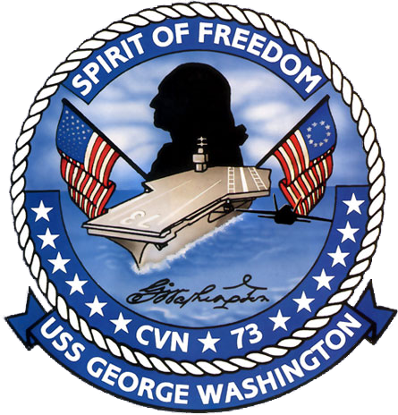 Insignia of the USS George Washington (CVN-73).